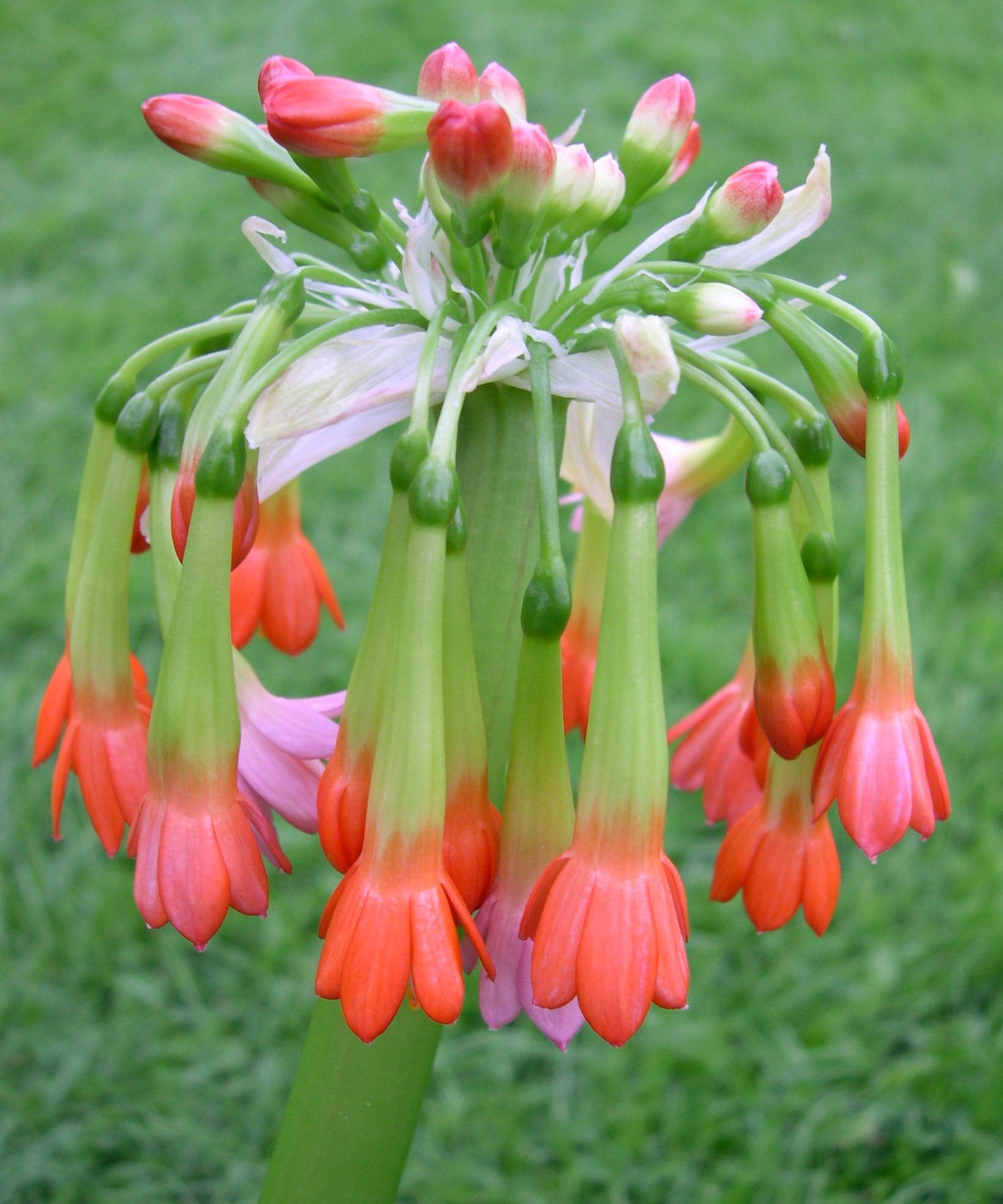 Flower of Scadoxus cyrtanthiflorus in cultivation